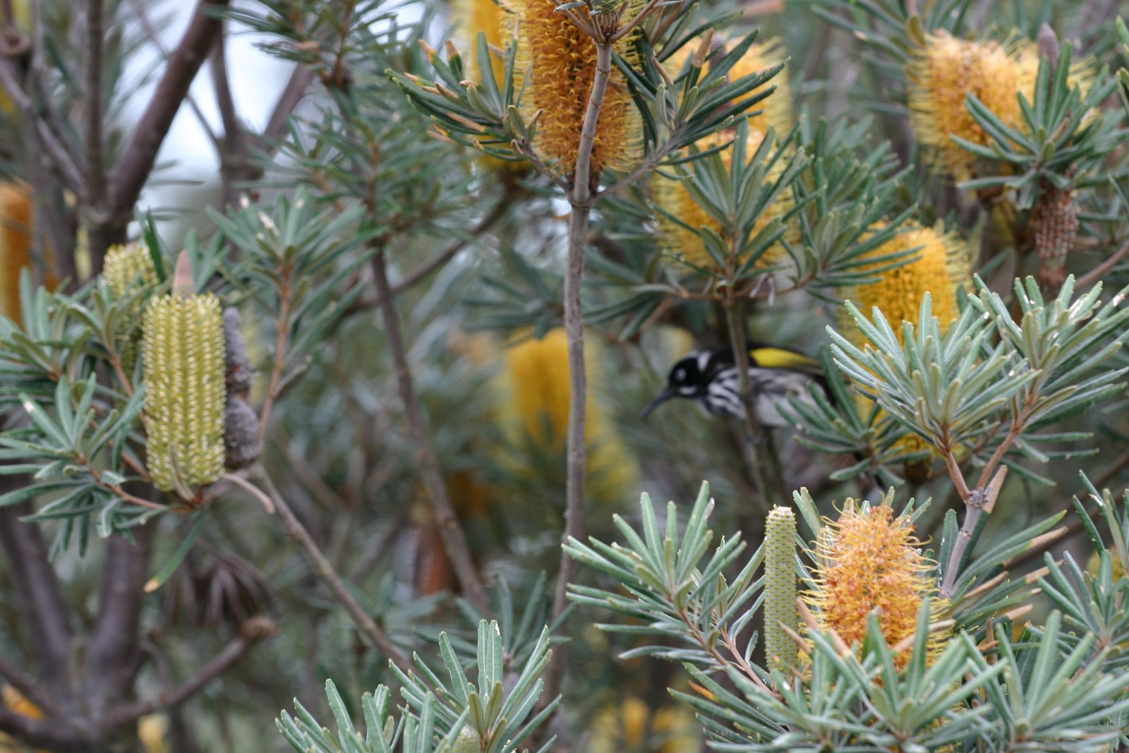 Banksia verticillata at Banksia Farm, Mt Barker, WA